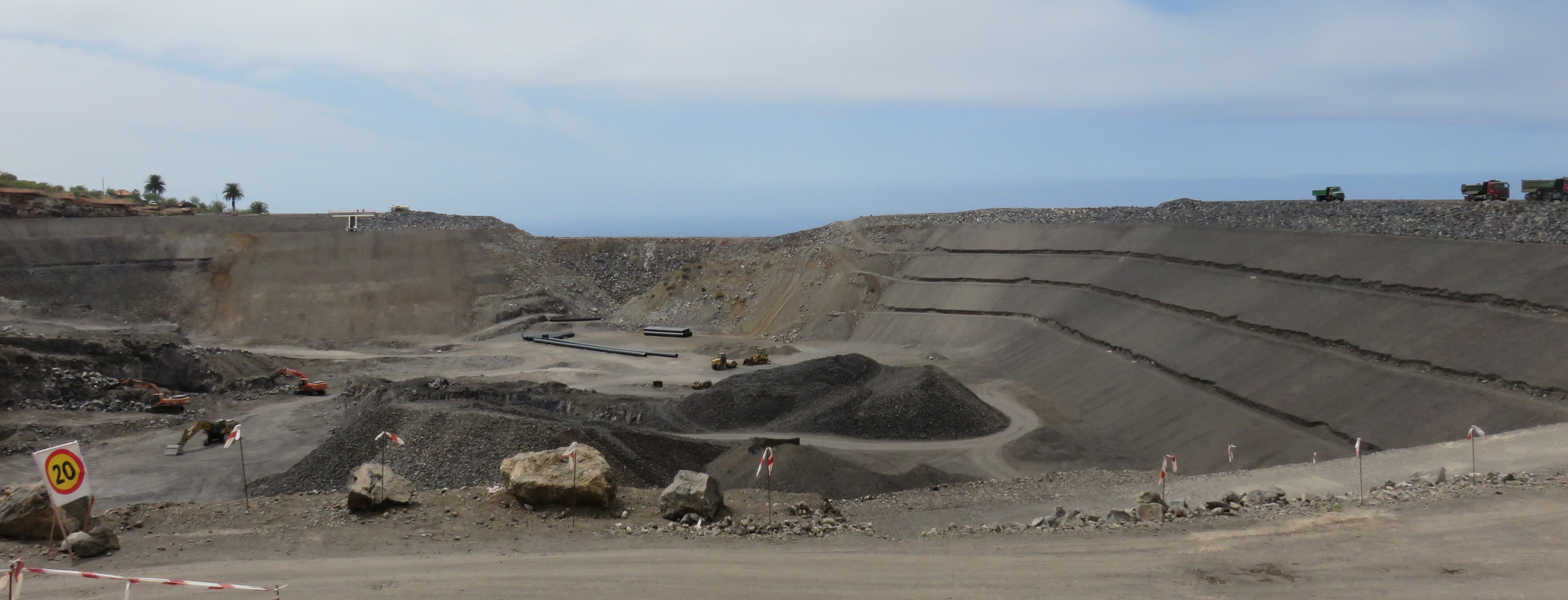 Tijarafe, "Balsa de Vicario"